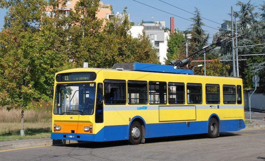 Modena, Italy trolleybus 18, a 1986 Socimi 8820 (also Fiat model 2470.12), is laying over at the Viale dello Zodiaco terminus of route 11 in 2007, wearing a paint scheme ATCM adopted for its fleet in the late 1990s. It was refurbished in the early 2000s by a local firm, Albiero & Bocca.